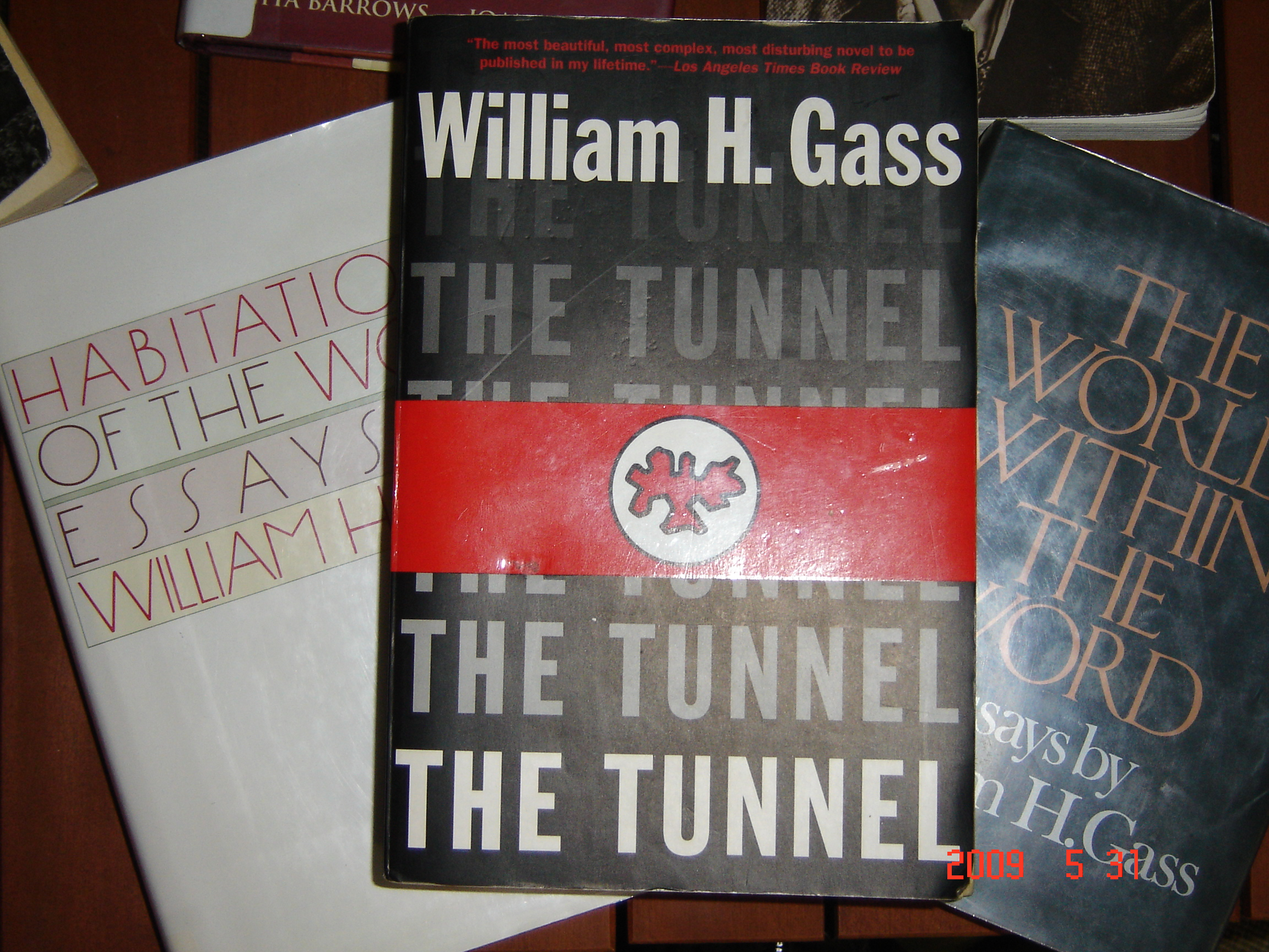 Paperback copy of "The Tunnel" by William H. Gass on top of his books of essays "Habitations of the Word" and "The World Within the Word".